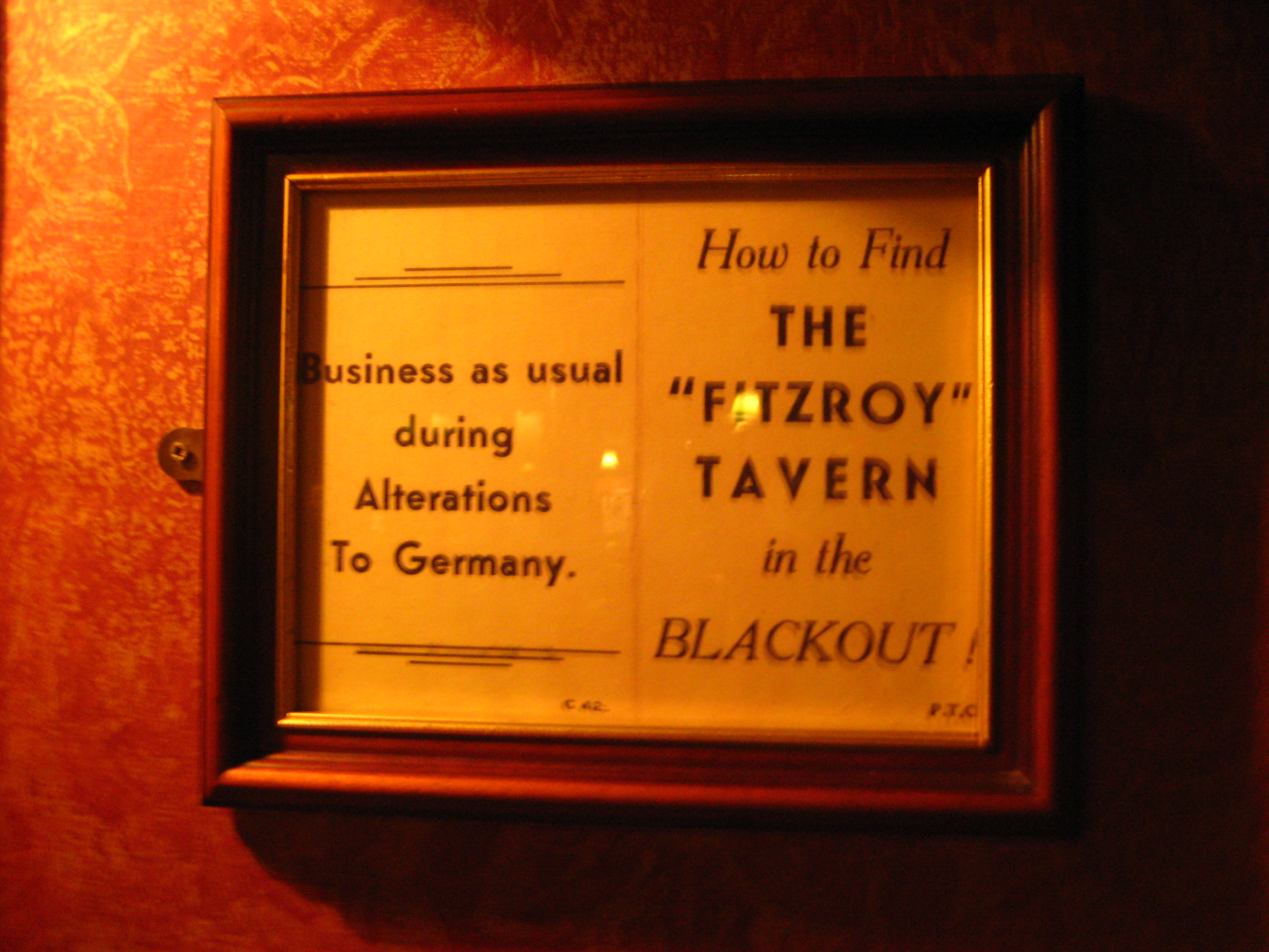 Sign on the wall of the Fitzroy Tavern, London, preserved from World War Two